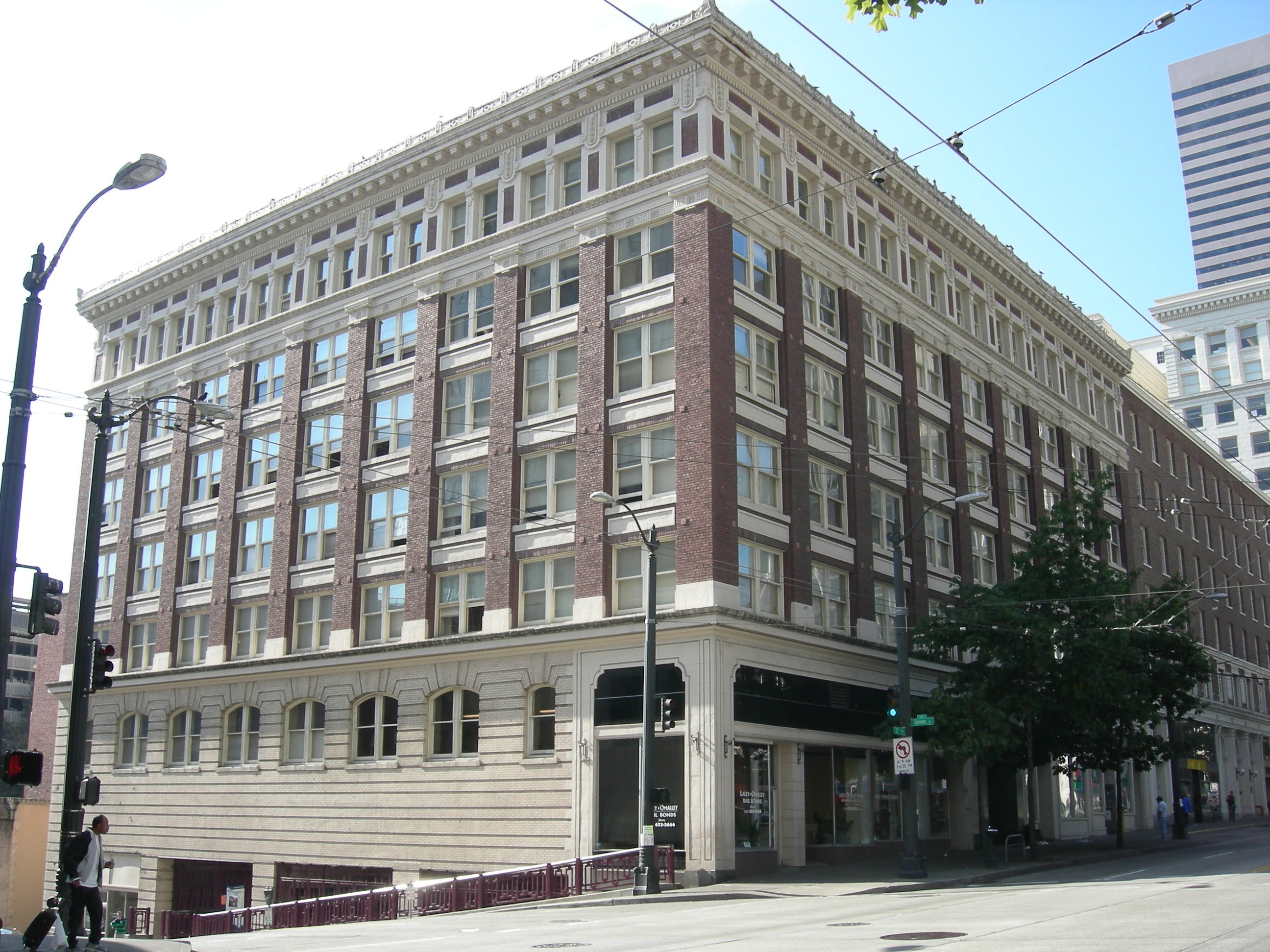 The Lyon Building, 607 Third Avenue, Seattle, Washington, USA, listed as a city landmark and on the National Register of Historic Places, ID #95000806. Designed by David J. Meyers and John Graham, Sr.